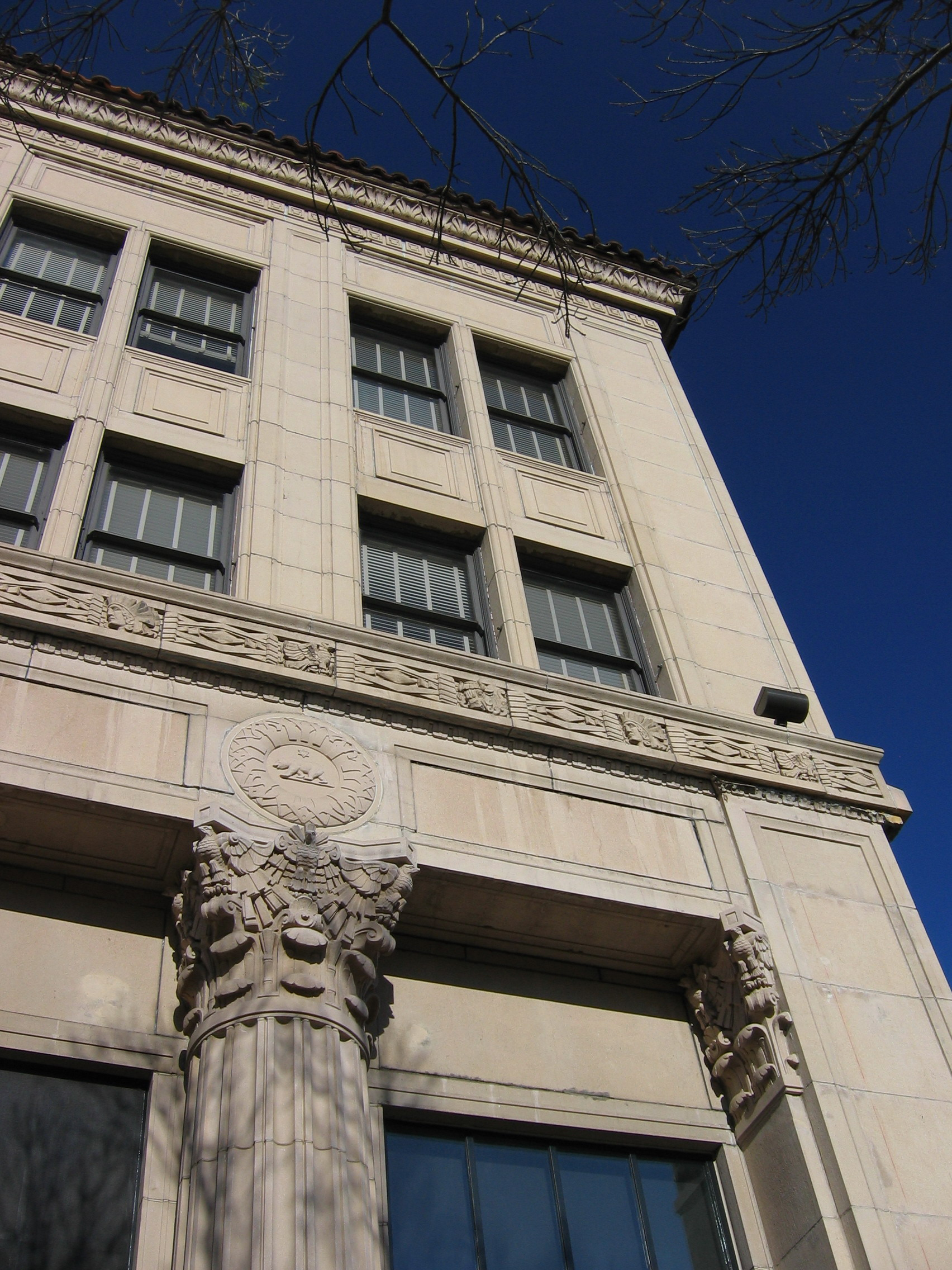 The facade of the Bank of Italy, Merced, which is listed on the National Register of Historic Places. This building is on the corner of Main and Canal streets in Merced. The facade was either destroyed or covered for decades. I remember the building as some kind of department store. It's been restored and is used as a bank (as I think it originally was).